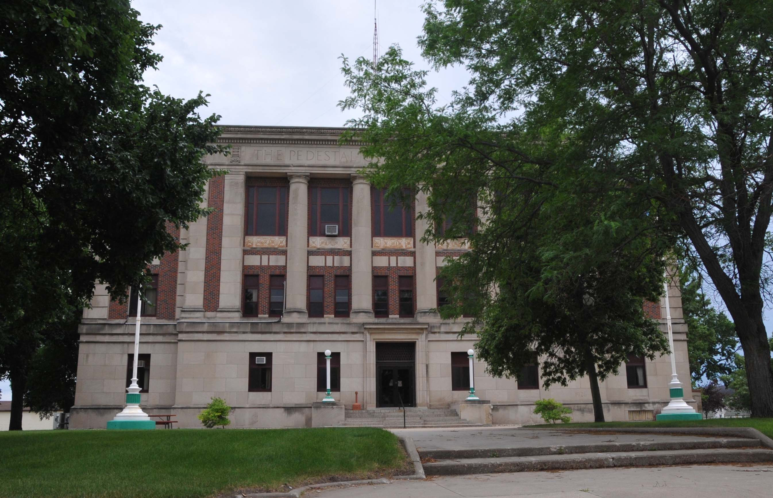 BUILT IN 1926-1927. IT IS A CLASSICAL REVIVAL COURTHOUSE